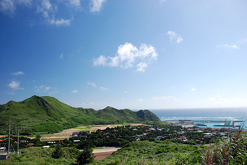 View of Tonaki Island